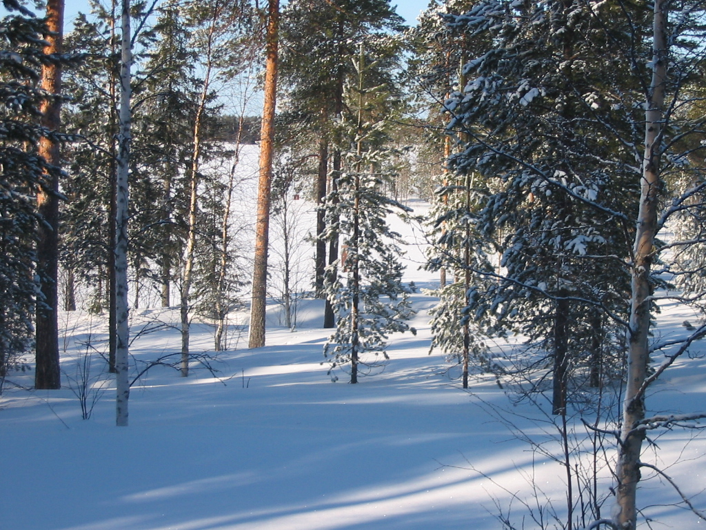 Forest in Kortteenperä, Ranua, Finland in winter